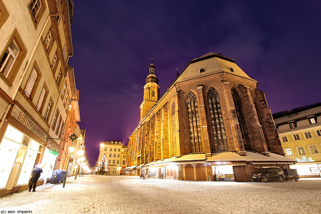 Church of the Holy Spirit, Heidelberg, Night